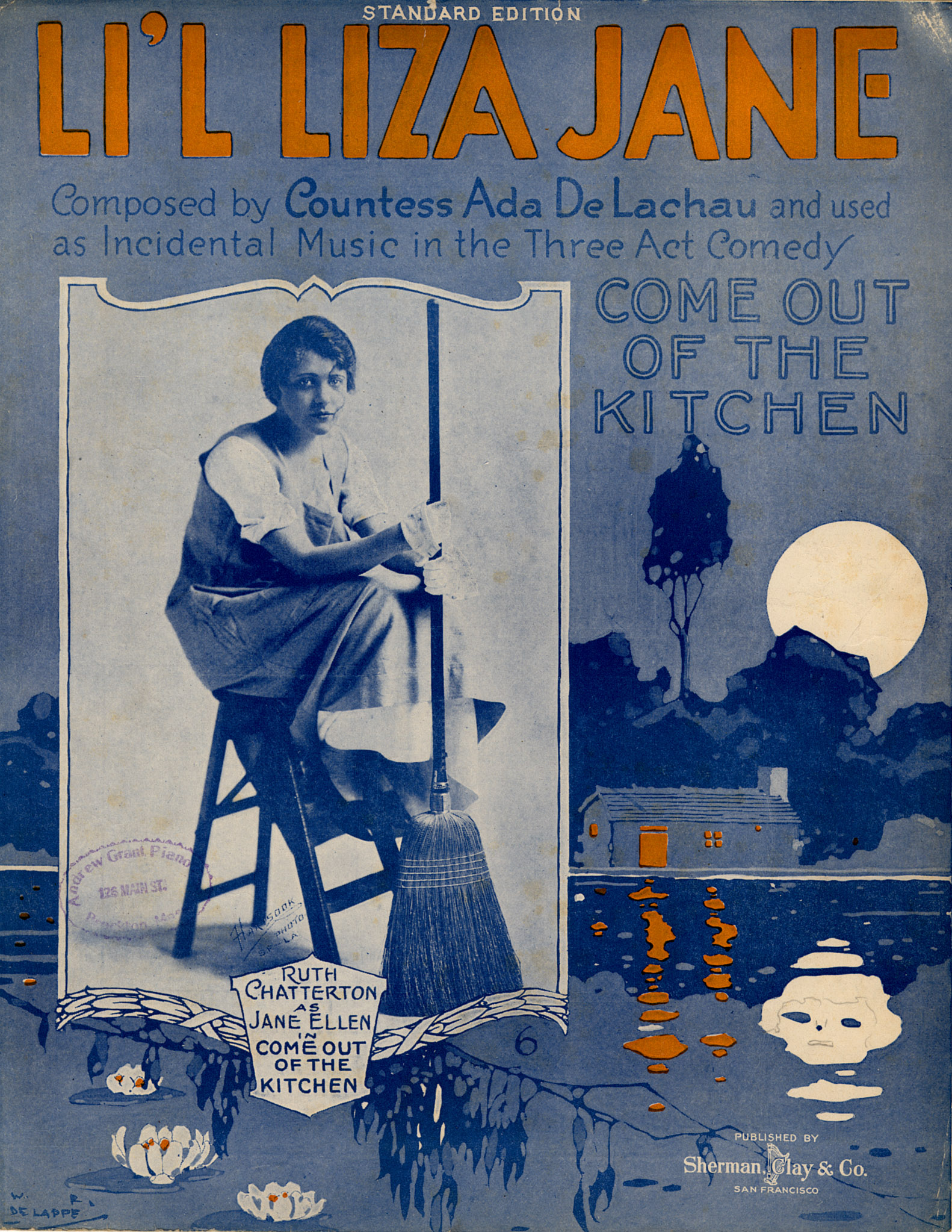 "Li'l Liza Jane" 1916 sheet music cover. Cover has insert photo of actress Ruth Chatterton.